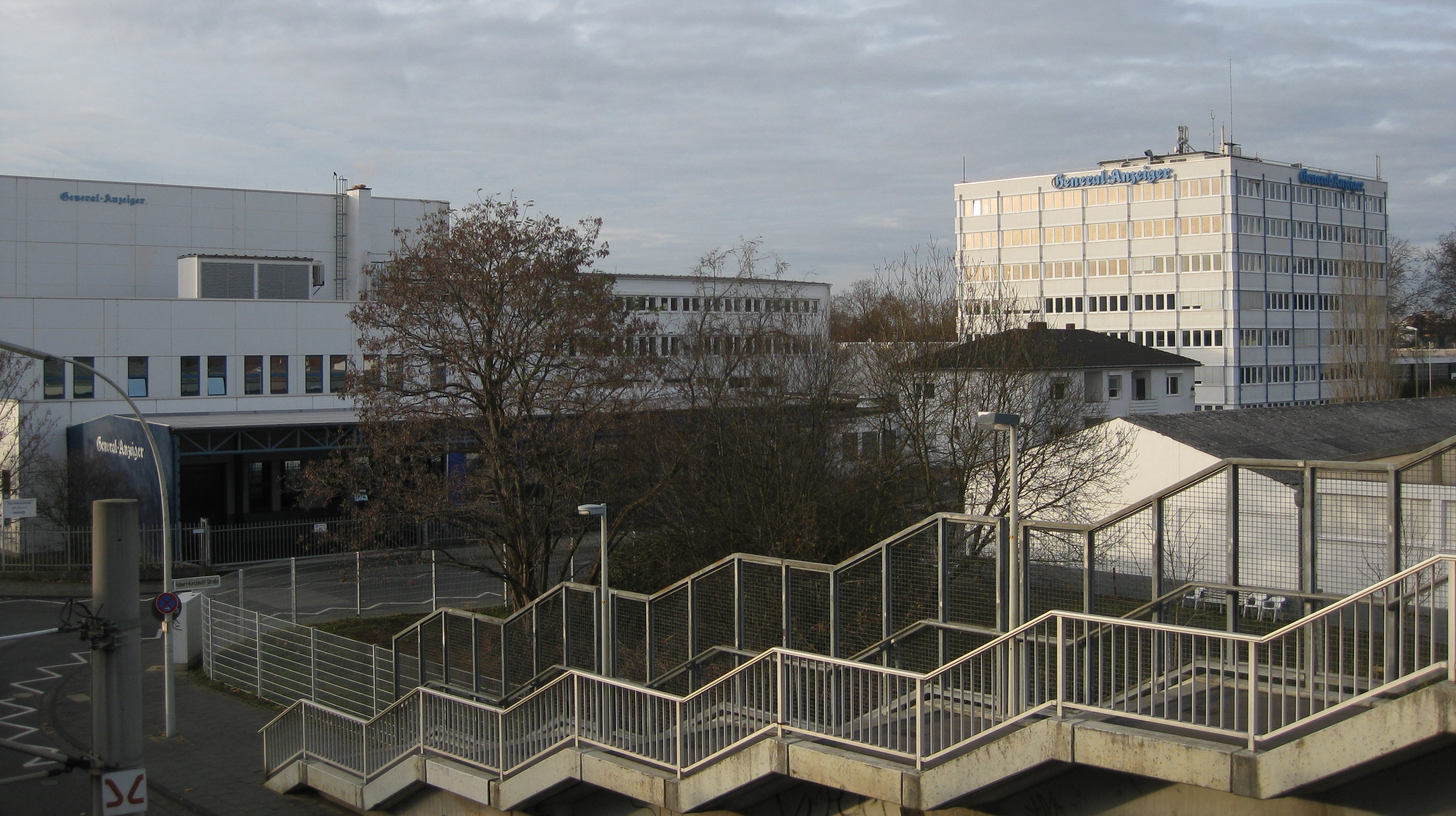 Germany, Bonn: company site of printing and publishing company Bonner Zeitungsdruckerei und Verlagsanstalt H. Neusser GmbH; printing and editing etc. the daily newspaper General-Anzeiger Bonn.